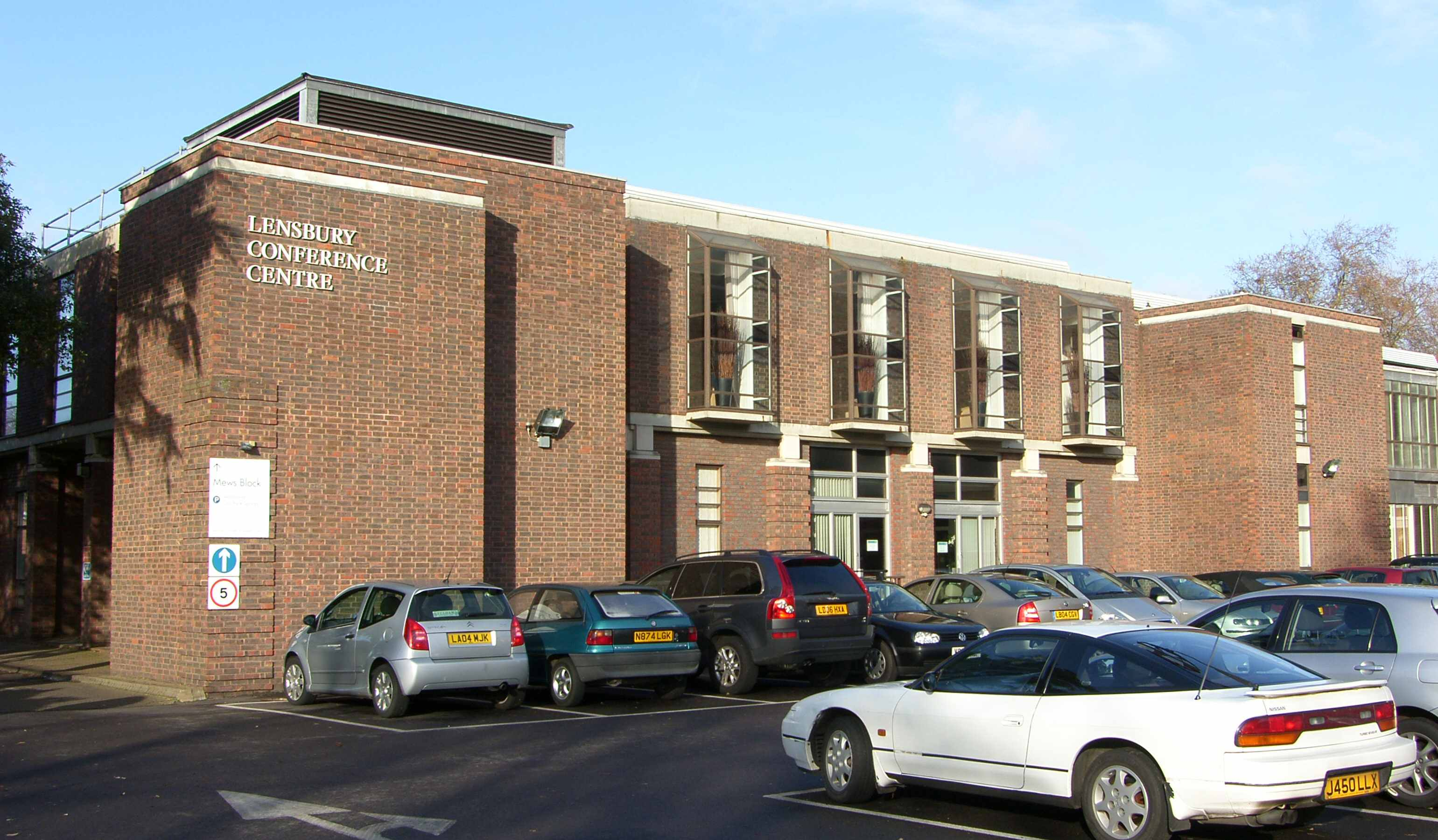 Lensbury Conference Centre, part of Lensbury private club. Photo free use to all